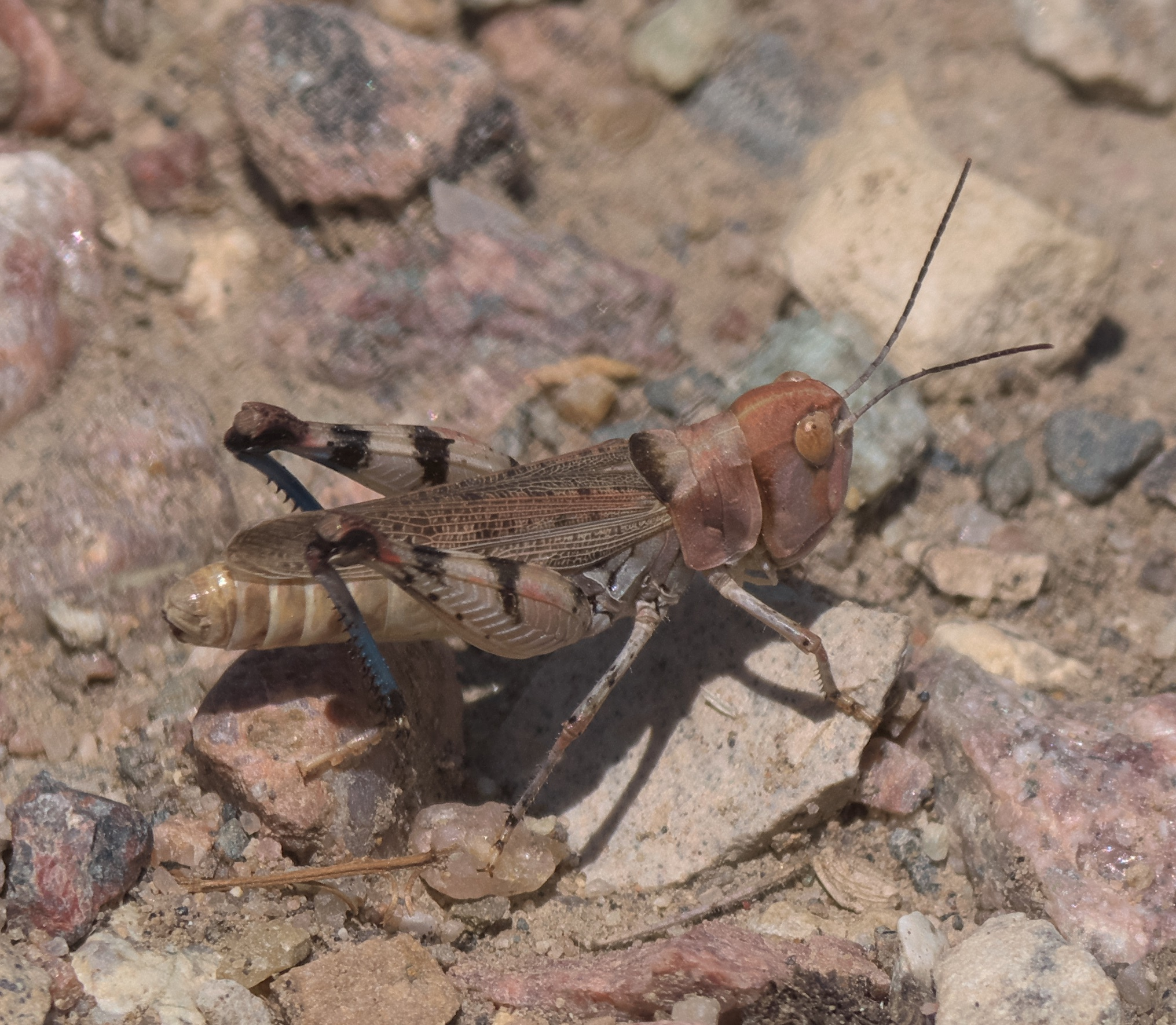 Aulocara elliotti, Big-headed Grasshopper, female, ID Confidence: 98